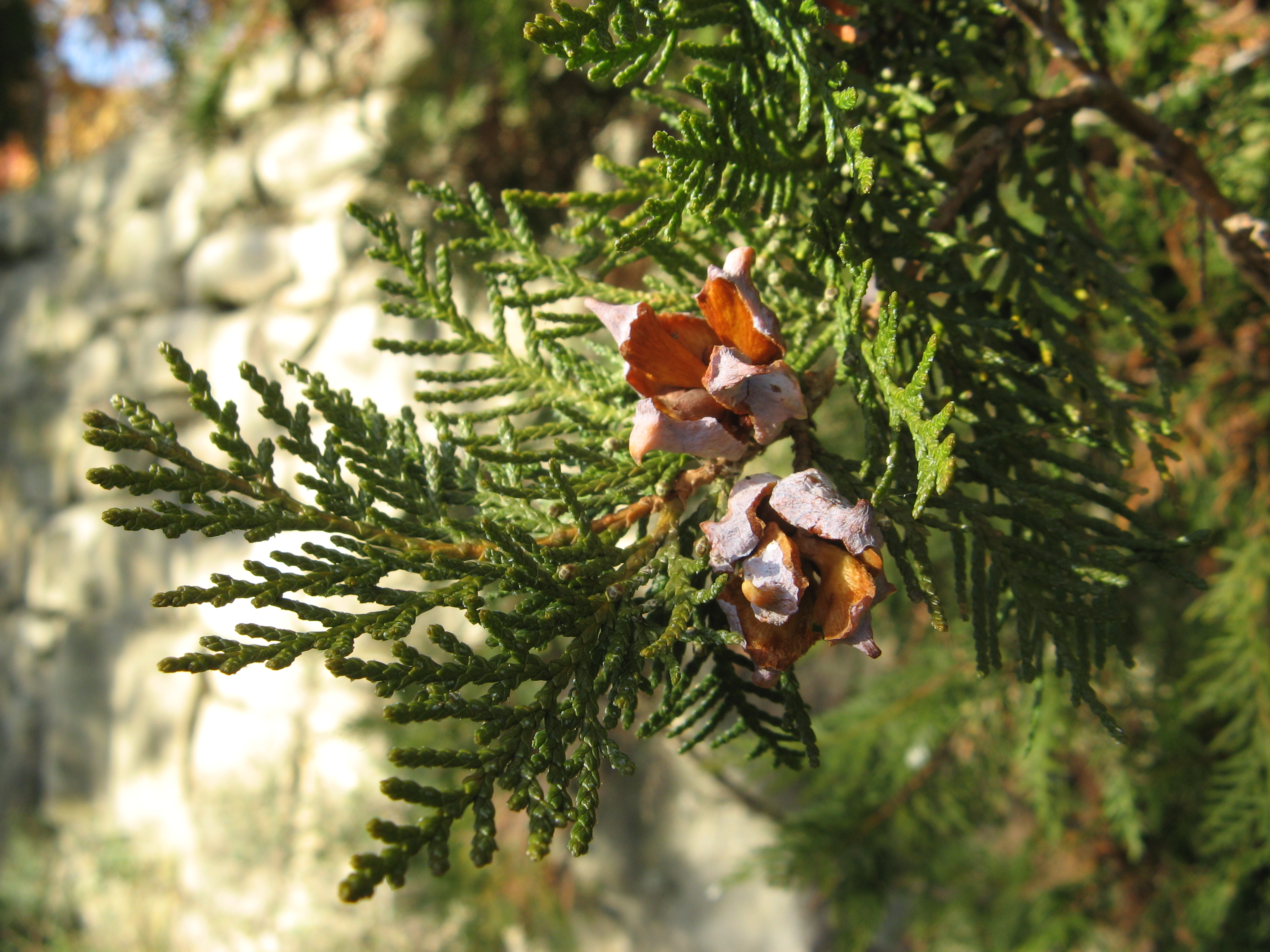 Platycladus orientalis foliage and cones, cultivated, Castino, Piemonte, Italy